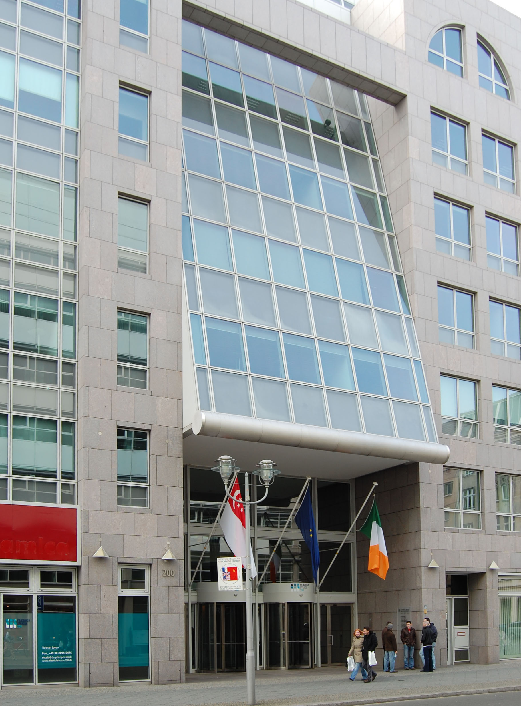 Embassy of Ireland and Singapore in Berlin